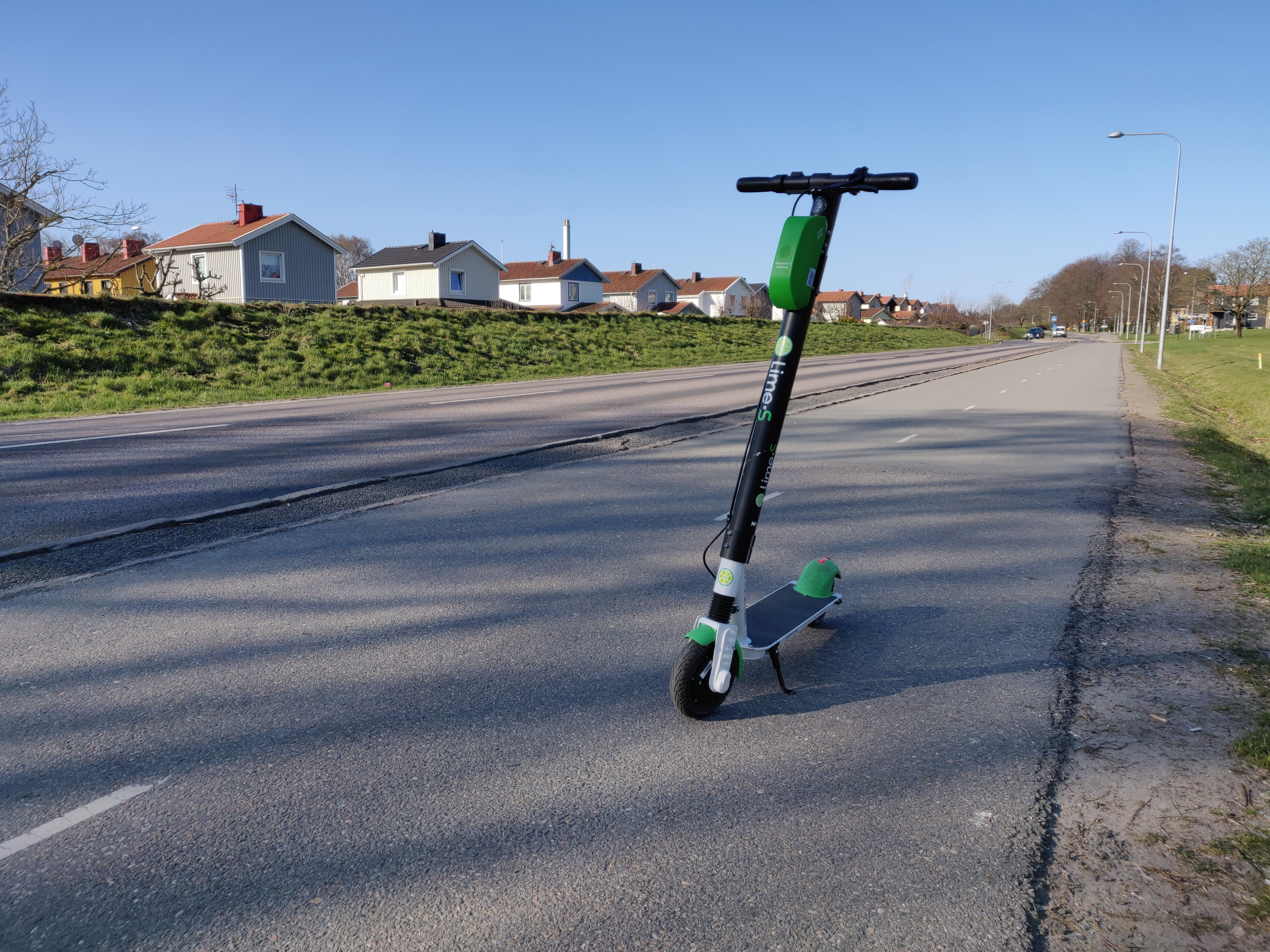 A LimeBike scooter in Utby, a suburb of Göteborg, Sweden.